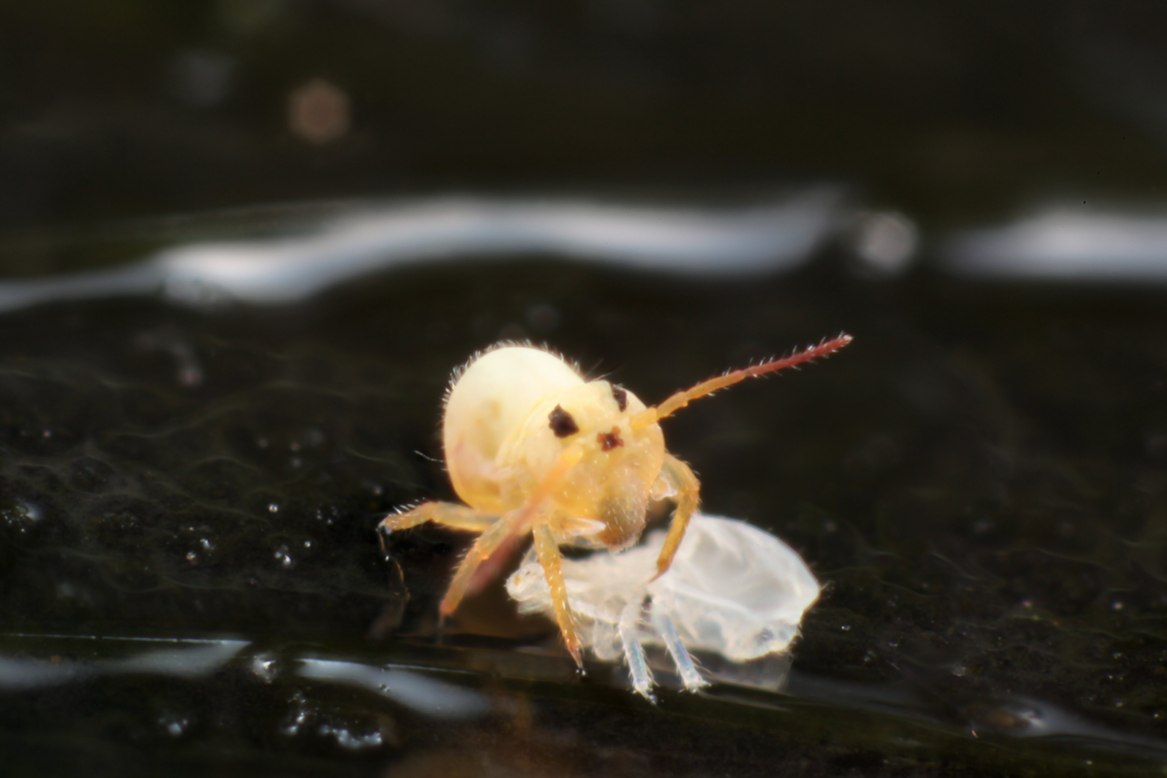 Sminthurides aquaticus moulting, England.